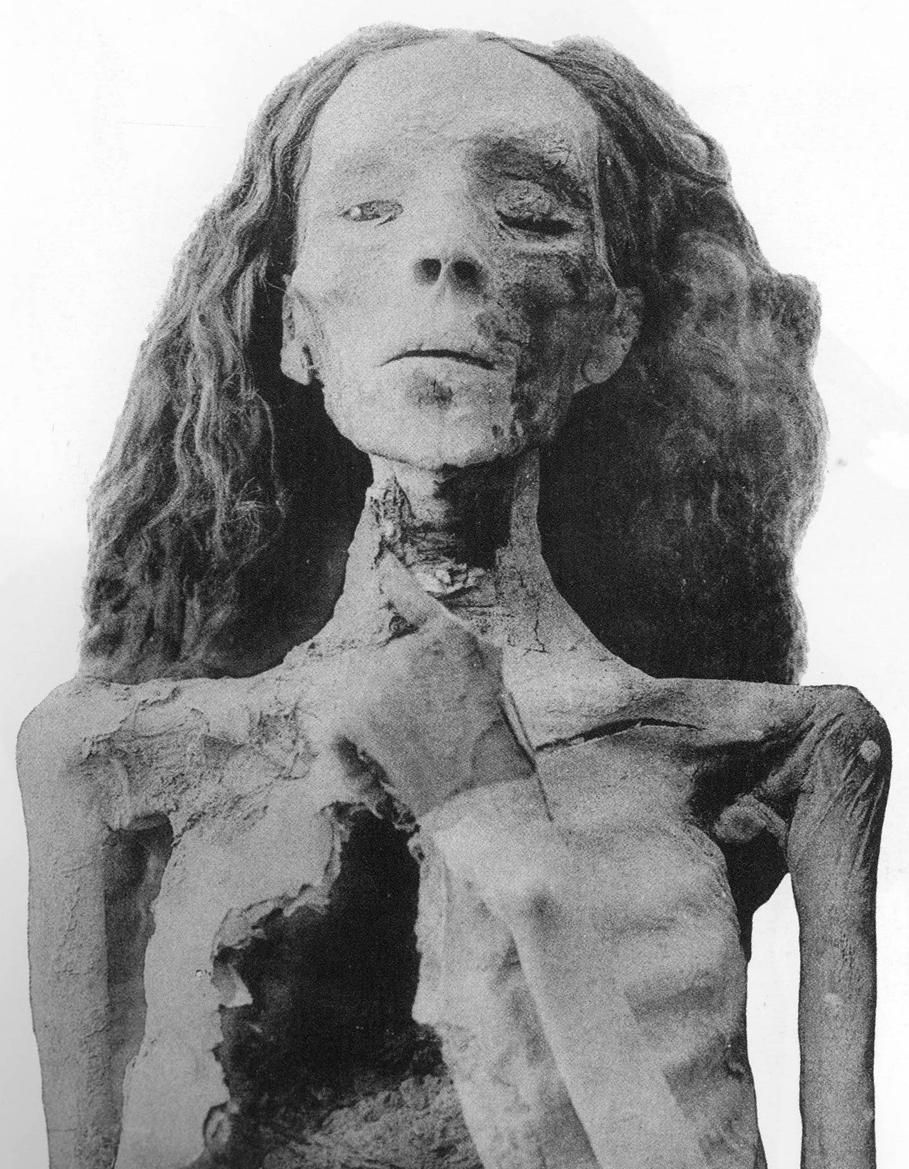 Front view of the "Elder Lady Mummy" found in tomb KV35. Note that this image displays the extensive damage thought to be done by ancient tomb robbers to the chest of the mummy. Image derived from Grafton Elliot Smith's "The Royal Mummies" (Plate XCVII), which was first published in 1912. The author died in 1937 so the book/image is in the public domain. Recent genetic tests have conclusively demonstrated that this individual was the mother of the remains found in KV55, now thought (but not proven) to be that of Akhenaten. The JAMA eSupplement from Feb. 17, 2010 concludes that "The family pedigree was completed by the identification of KV35 Elder Lady as a daughter of Yuya and Thuya (99.99999929%), indicating that she could be Queen Tiye. This was confirmed by the calculation of the kinship of Amenhotep III and KV35 Elder Lady as father and mother of KV55, which revealed a probability of 99.99999964%." (eSupplement, p.3).